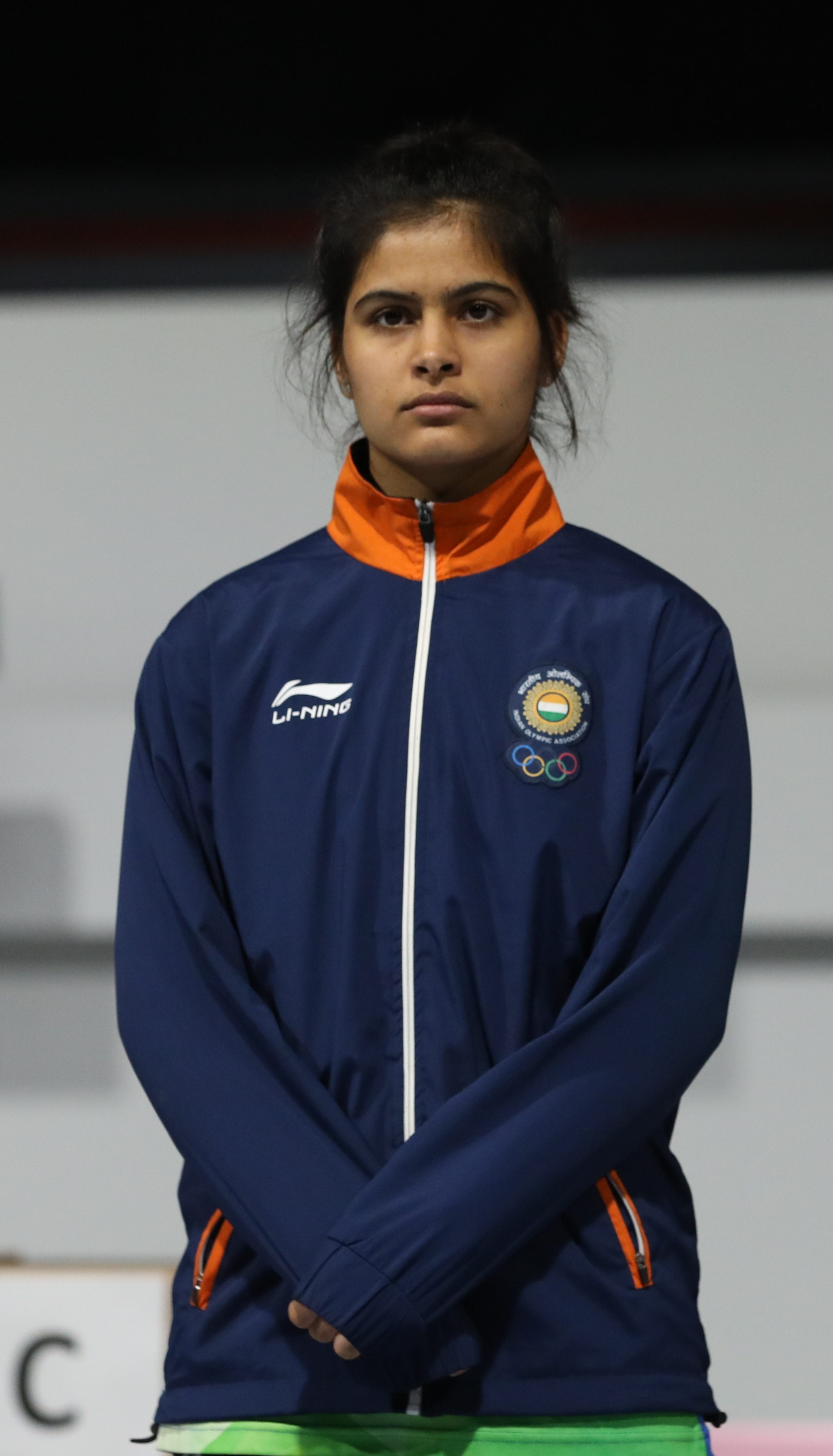 Shooting at the 2018 Summer Youth Olympics in Buenos Aires on 12 October 2018. Mixed 10 metre air pistol victory ceremony.